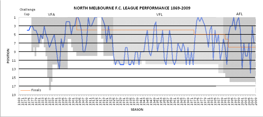 Chart showing the progress of the NMFC since joining the VFA in 1877